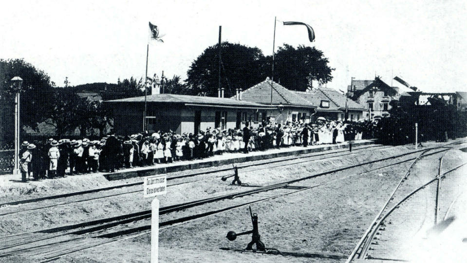 The first train on the newly opened branch line from Dürrröhrsdorf to Weißig arrives at Weißig-Bühlau station near Dresden on 1 July 1908